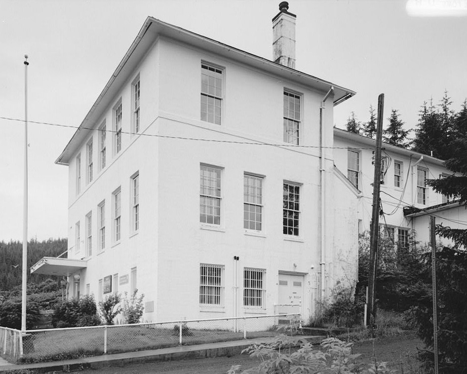 U.S. Post Office & Courthouse, Second Street, Cordova (Valdez-Cordova Census Area, Alaska) cropped This file comes from the Historic American Buildings Survey (HABS), Historic American Engineering Record (HAER) or Historic American Landscapes Survey (HALS). These are programs of the National Park Service established for the purpose of documenting historic places. Records consist of measured drawings, archival photographs, and written reports. When reusing please credit: Library of Congress, Prints & Photographs Division, AK-157 This tag does not indicate the copyright status of the attached work. A normal copyright tag is still required. See Commons:Licensing. This work is in the public domain in the United States because it is a work prepared by an officer or employee of the United States Government as part of that person’s official duties under the terms of Title 17, Chapter 1, Section 105 of the US Code. Note: This only applies to original works of the Federal Government and not to the work of any individual U.S. state, territory, commonwealth, county, municipality, or any other subdivision. This template also does not apply to postage stamp designs published by the United States Postal Service since 1978. (See § 313.6(C)(1) of Compendium of U.S. Copyright Office Practices). It also does not apply to certain US coins; see The US Mint Terms of Use. This file has been identified as being free of known restrictions under copyright law, including all related and neighboring rights. Object location60° 32′ 42″ N, 145° 45′ 18″ W